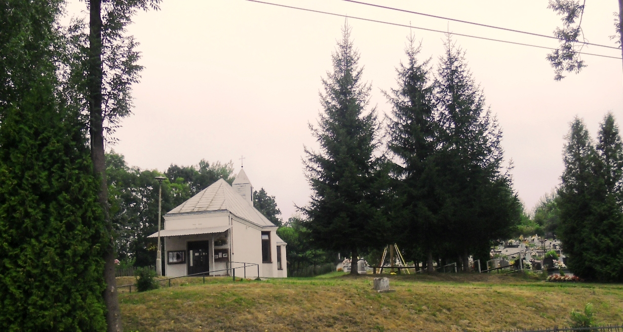 Jankowce is a village in the administrative district of Gmina Lesko, within Lesko County, Subcarpathian Voivodeship, in south-eastern Poland. Catholic Church of Sts. Queen Jadwiga and cemetery.